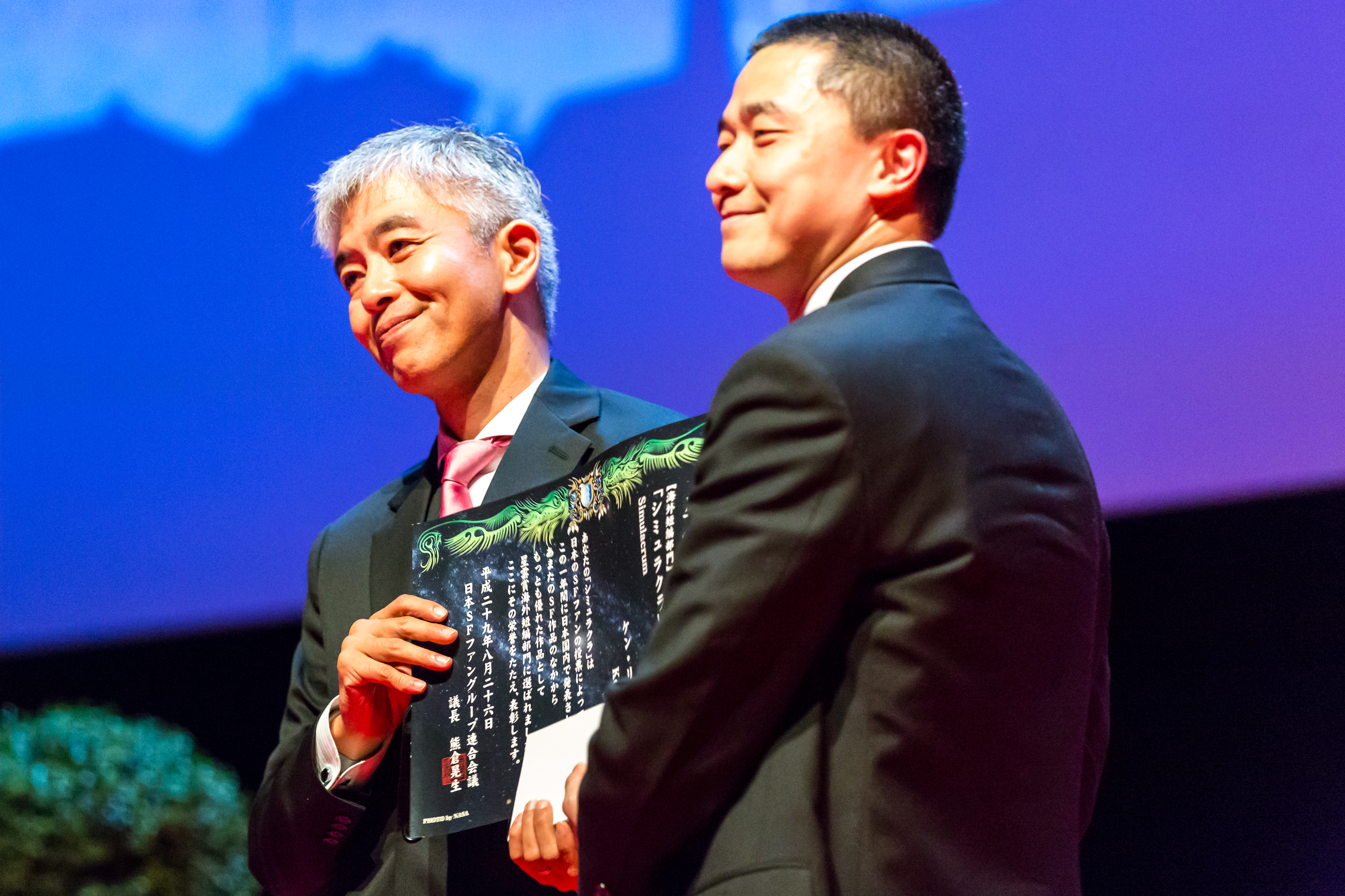 Taiyo Fujii and Ken Liu at the Hugo Awards Ceremony 2017 at Worldcon in Helsinki.jpg